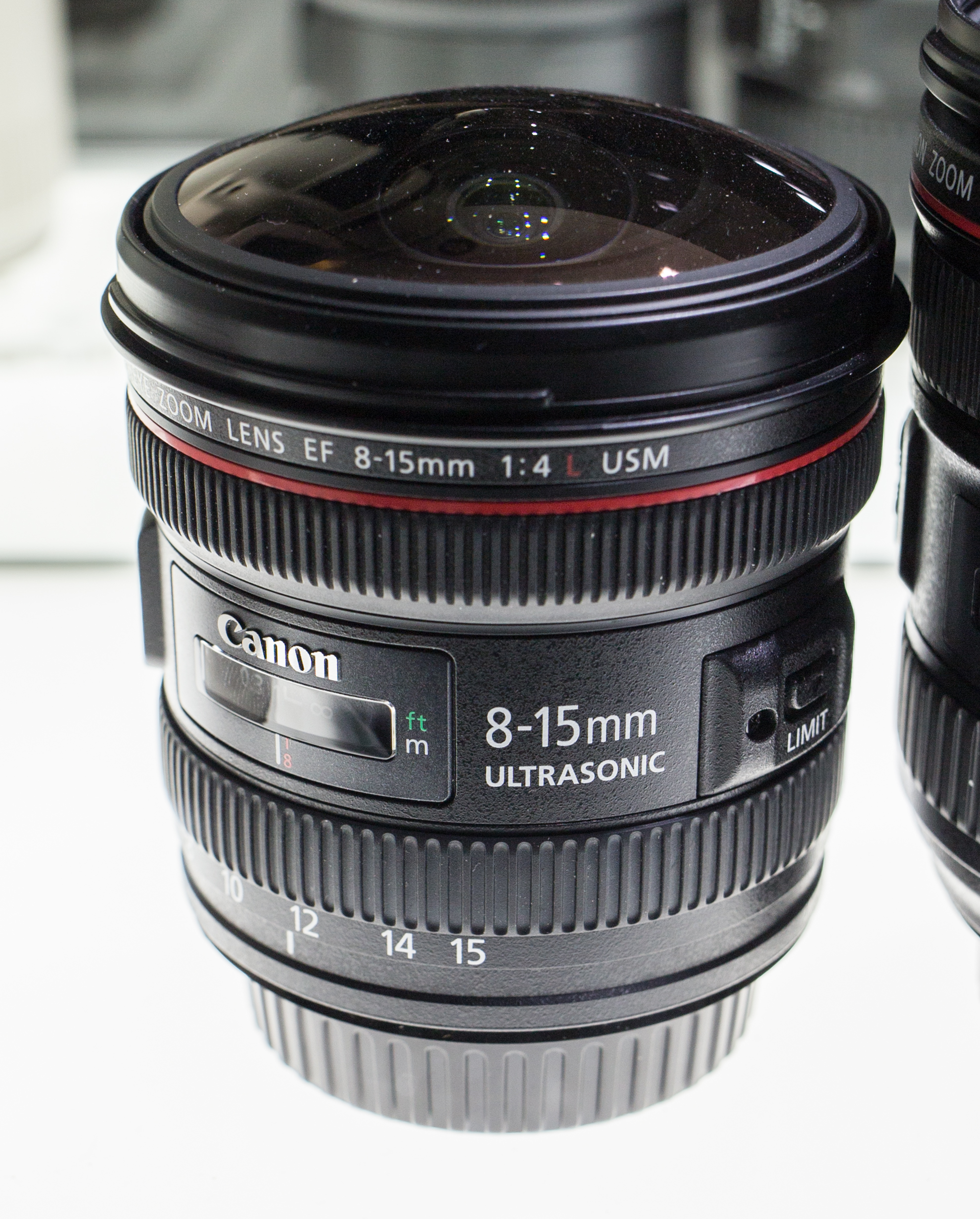 Image of the Canon FISHEYE ZOOM LENS EF 8–15mm L 1:4 USM